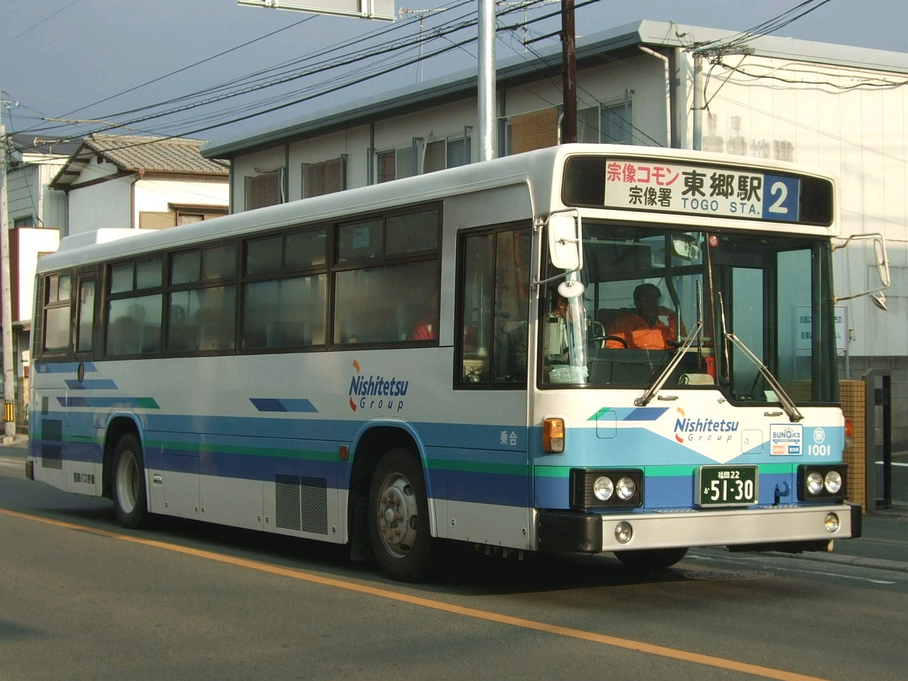 Hino Motors U-HT2MMAA by Nishi-Nippon Shatai Kogyo for Nishitetsu Bus Munakata Kanezaki branch, with license plate Fukuoka 22 KA 5130, in Munakata City, Fukuoka Prefecture, Japan